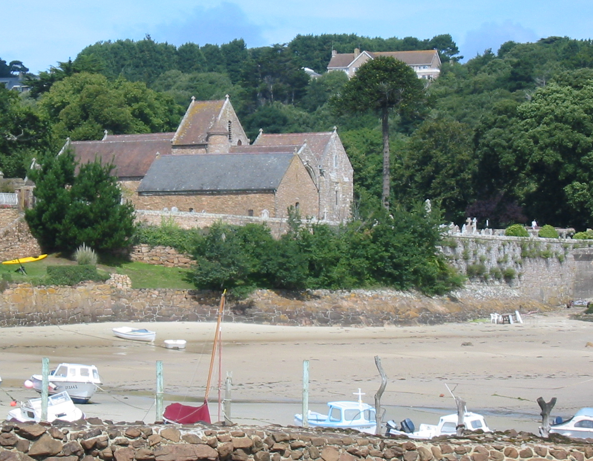 Saint Brelade, Jersey, 2 August 2009